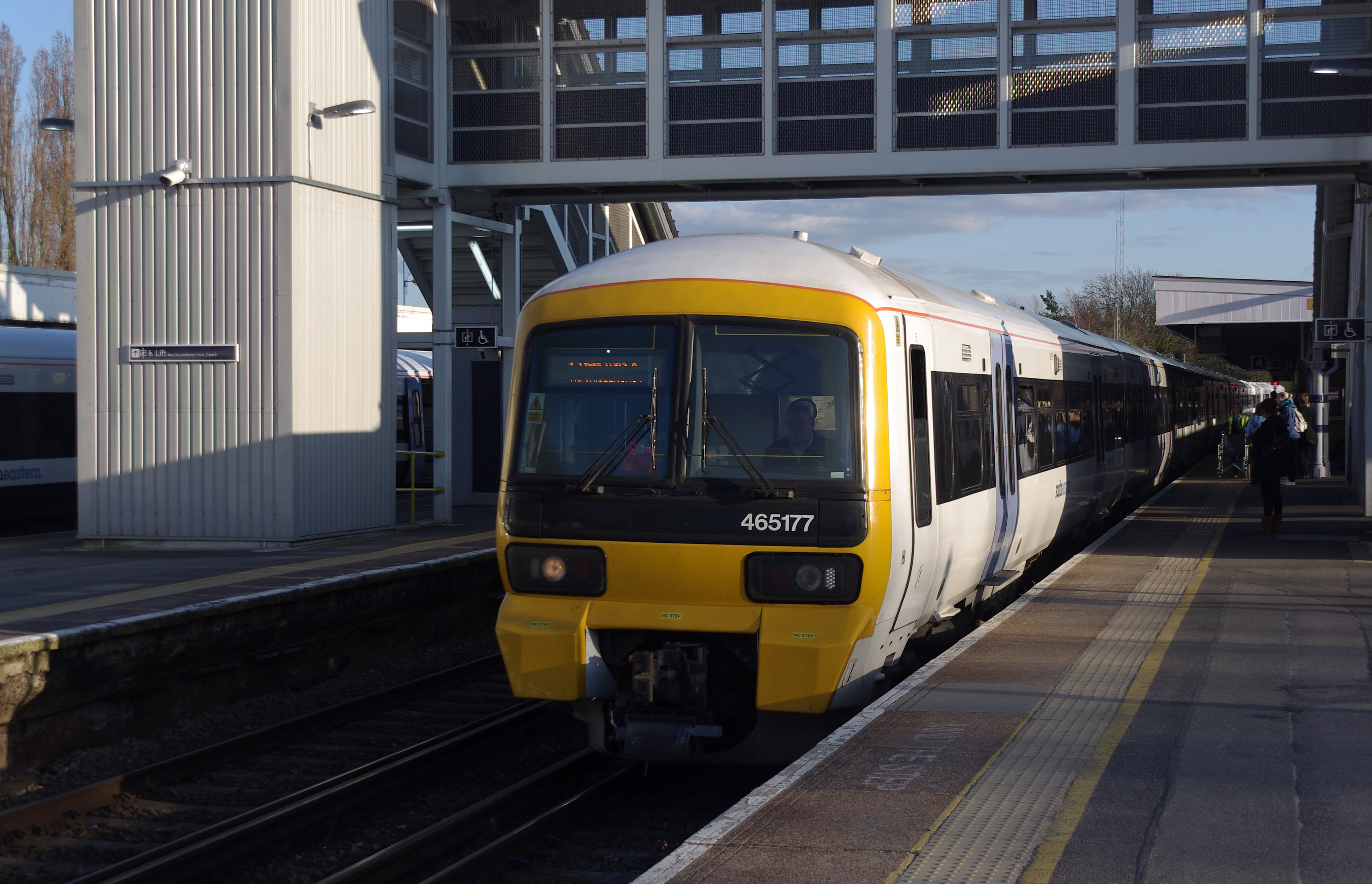 Southeastern Class 465 "Networker" EMU 465177 arrives at Orpington, heading a service to Charing Cross.